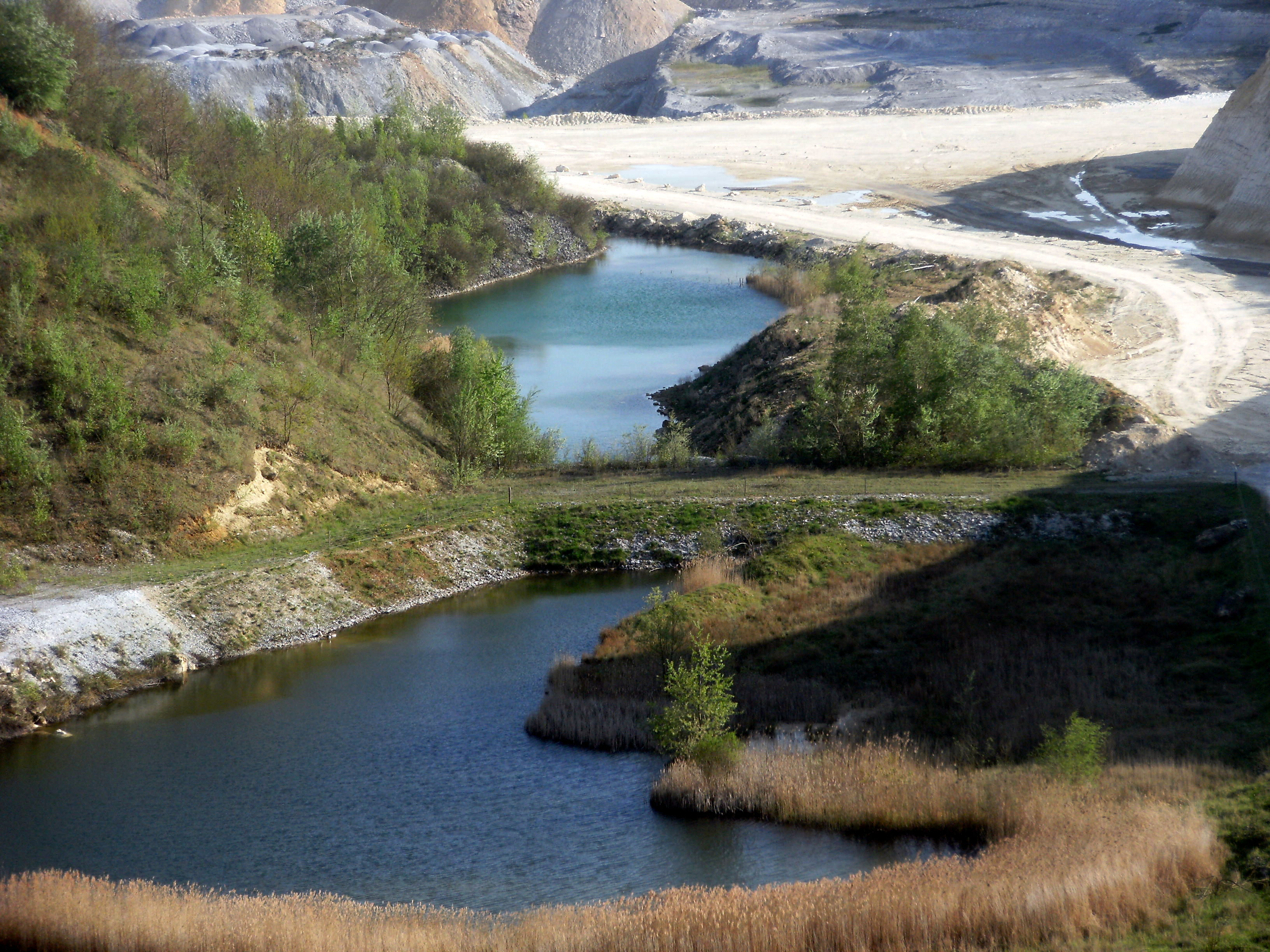 2013-05-04 in Maastricht; Views of ENCI Quarry.